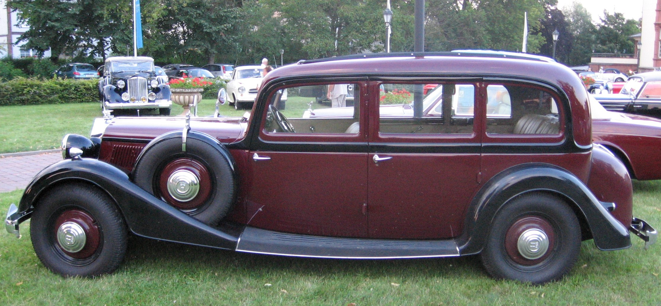 Horch